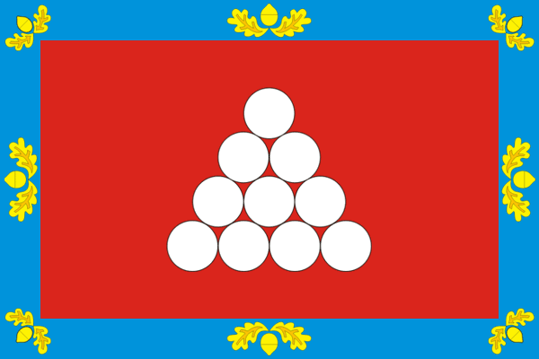 Flag of Yadrinsky district, Chuvashia, Russia